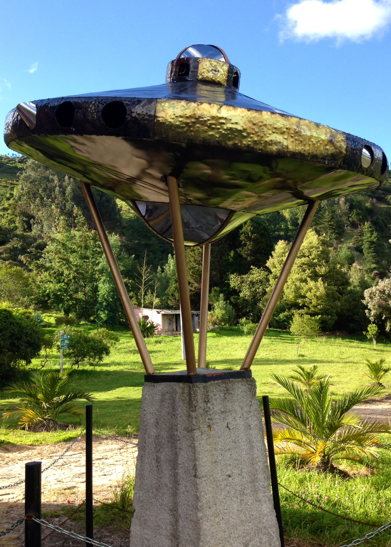 A statue of an UFO in Tenjo, Colombia. It commemorates the popular believe that many UFOs come to Tenjo and cause many unexplained paranormal activities